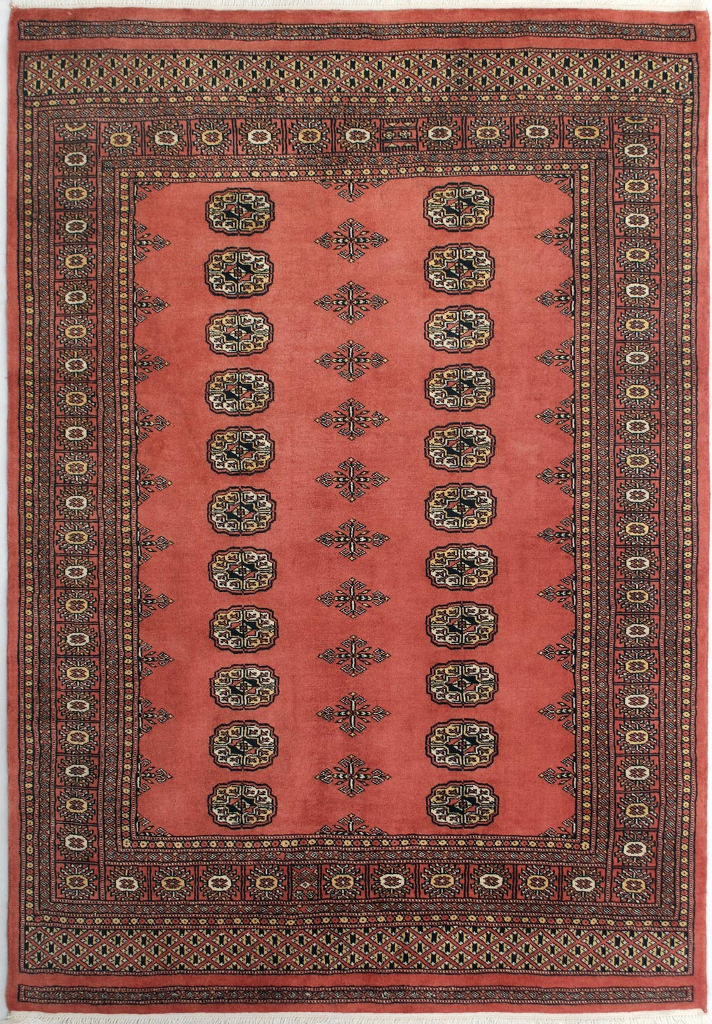 A handmade Bokhara rug woven in Pakistan